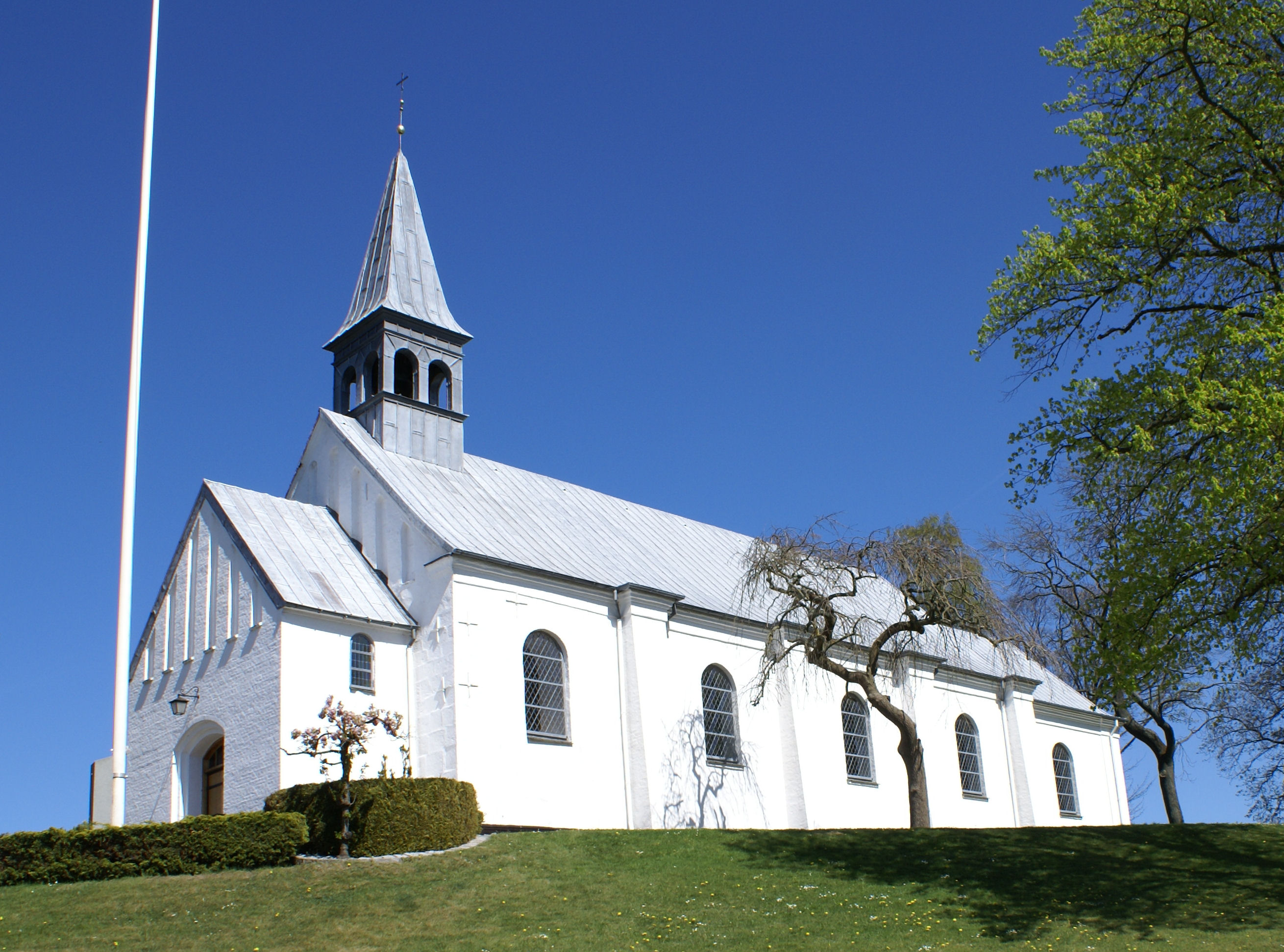 Kristrup Church, Randers, Diocese of Århus